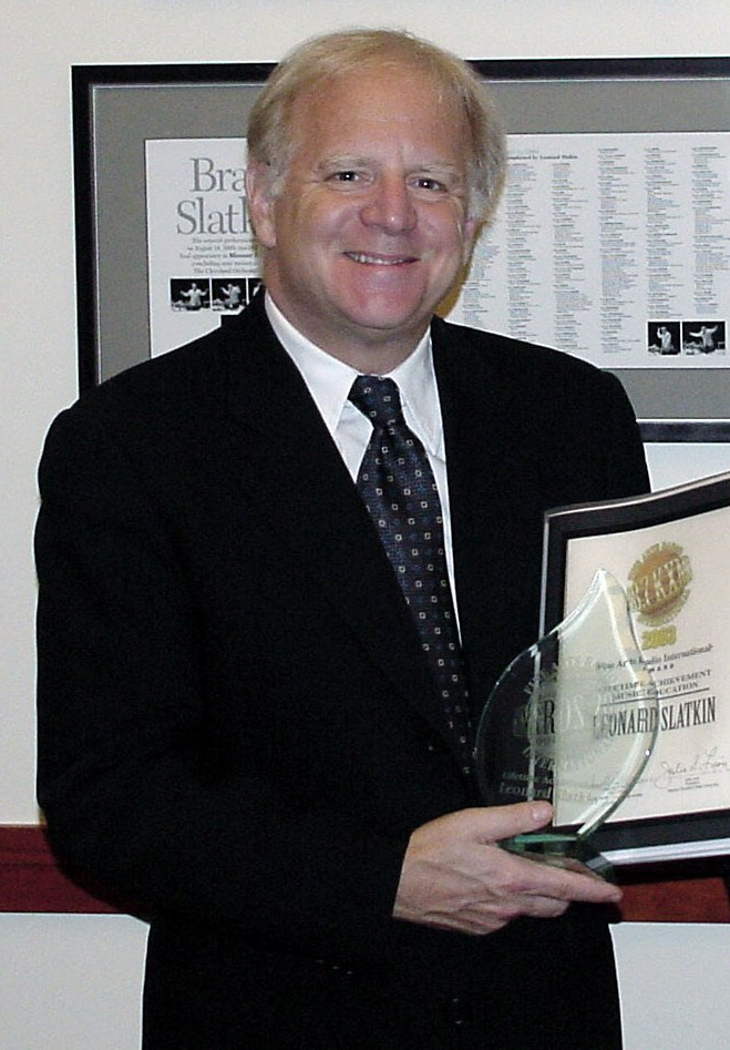 I took this photo of Leonard Slatkin at his office in the Kennedy Center in 2004 on the occasion of presenting him the award shown holding.